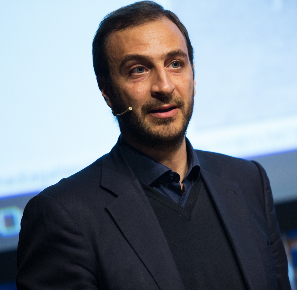 Emiliano Fittipaldi at International Journalism Festival 2017